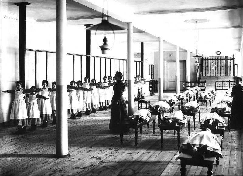 Урок гимнастики в Сиротском институте Ведомства учреждений императрицы Марии. Санкт-Петербург. 1900-е. Фото ателье К. К. Буллы